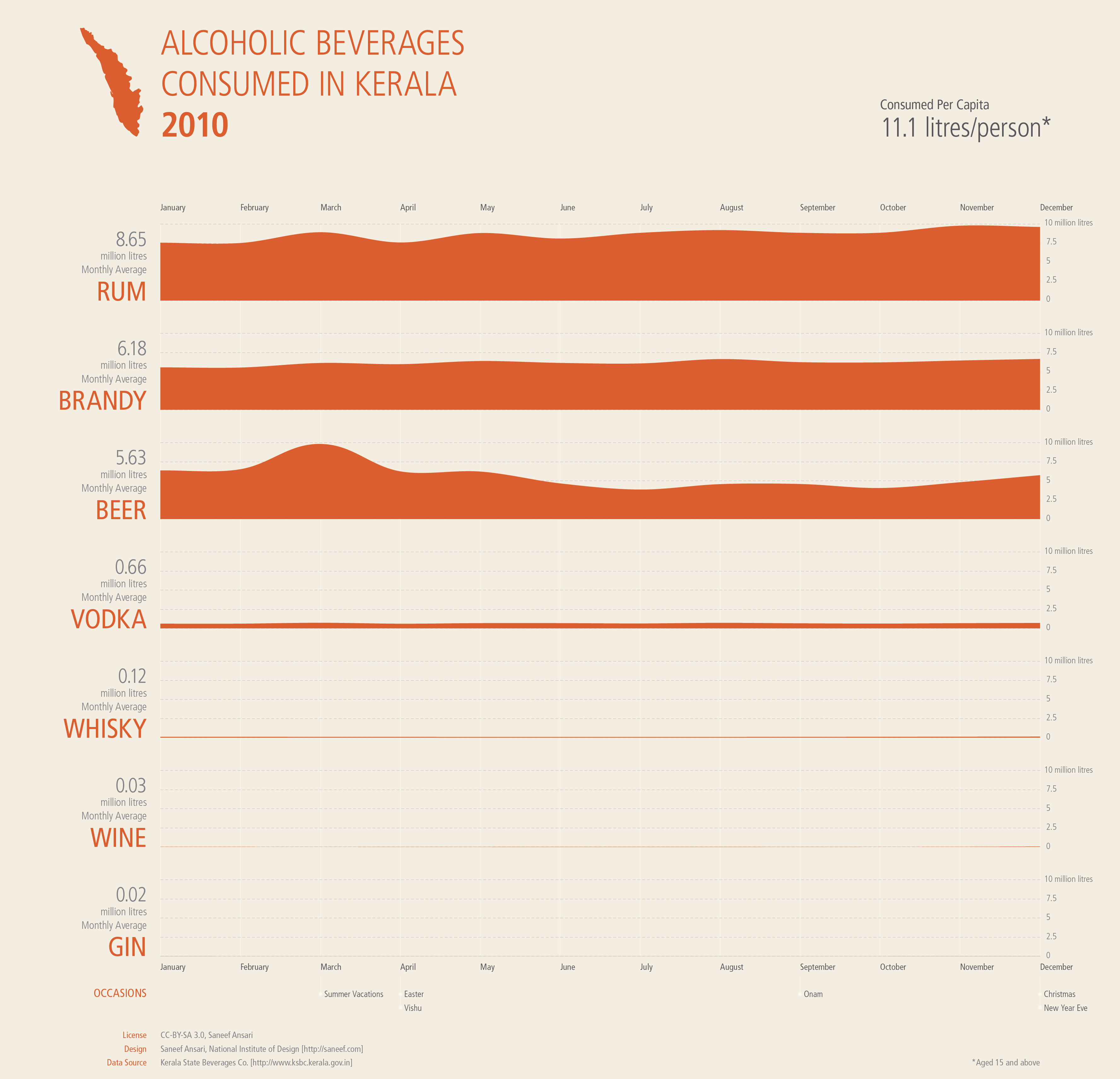 Graphic showing the consumption of Alcoholic Beverages(in Litres) & per capita consumption in Kerala for the year of 2010